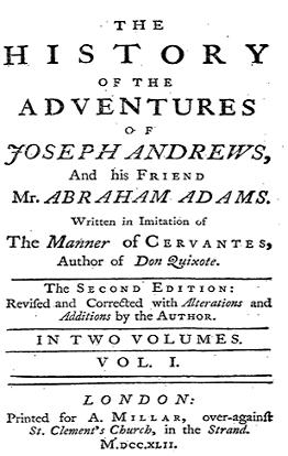 first page of Henry Fielding's Joseph Andrews